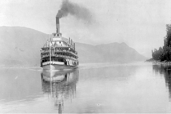 photograph of Bonnington sternwheel steamboat